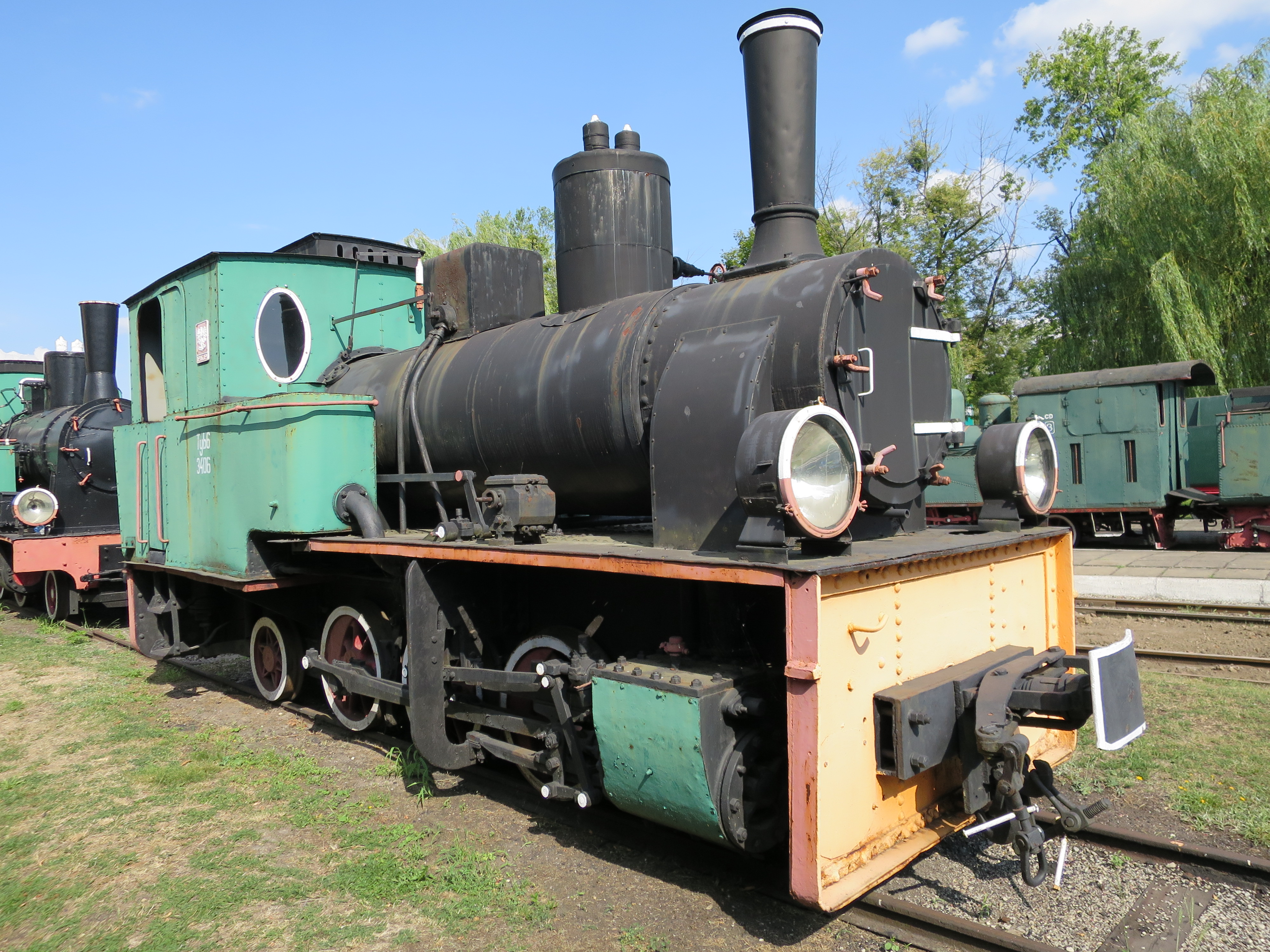 Tyb6-3406 Muzeum Kolei Wąskotorowej w Sochaczewie This photo was taken during Railway Wikiexpedition 2015 set up by Wikimedia Polska Association in cooperation with Fundacja Grupy PKP. You can see all photographs in category Wikiekspedycja kolejowa 2015.